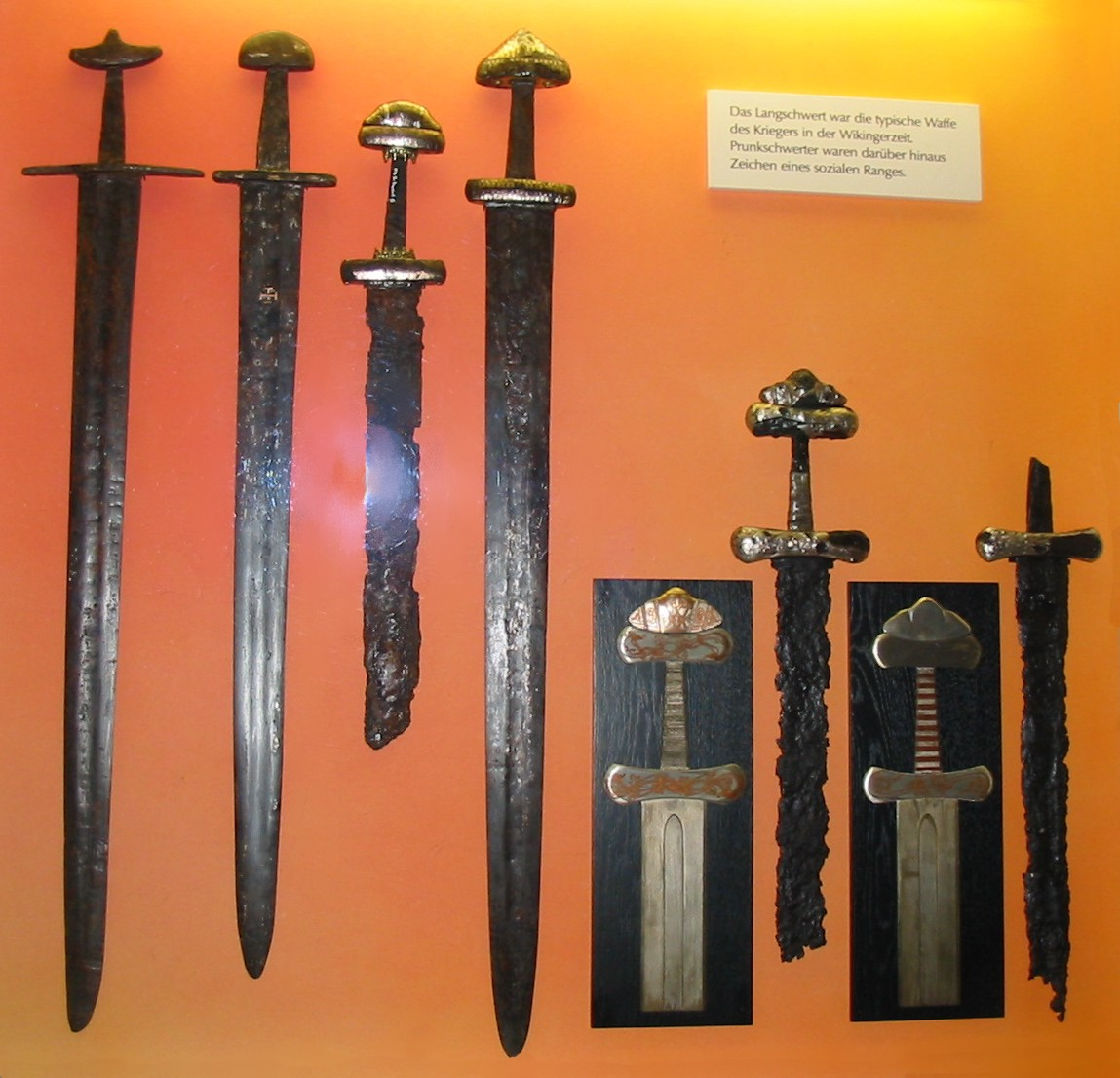 Viking longswords